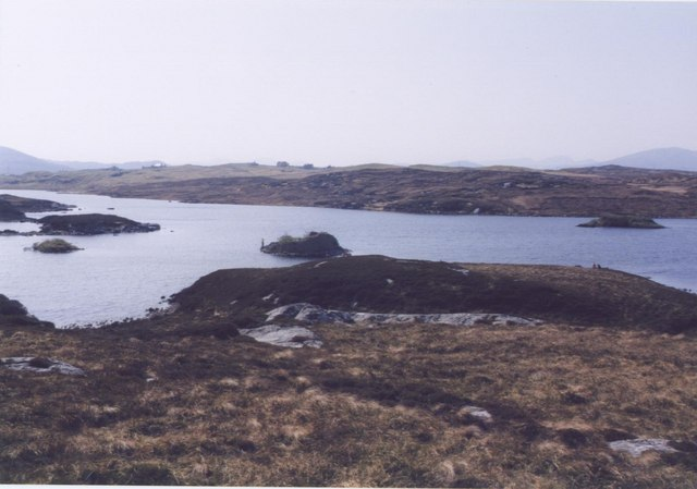 Loch Barabhat and Dun. The dun in loch Barabhat with the crofts of Tacleit beyond. Featuring a fisherman and some rough moorland.